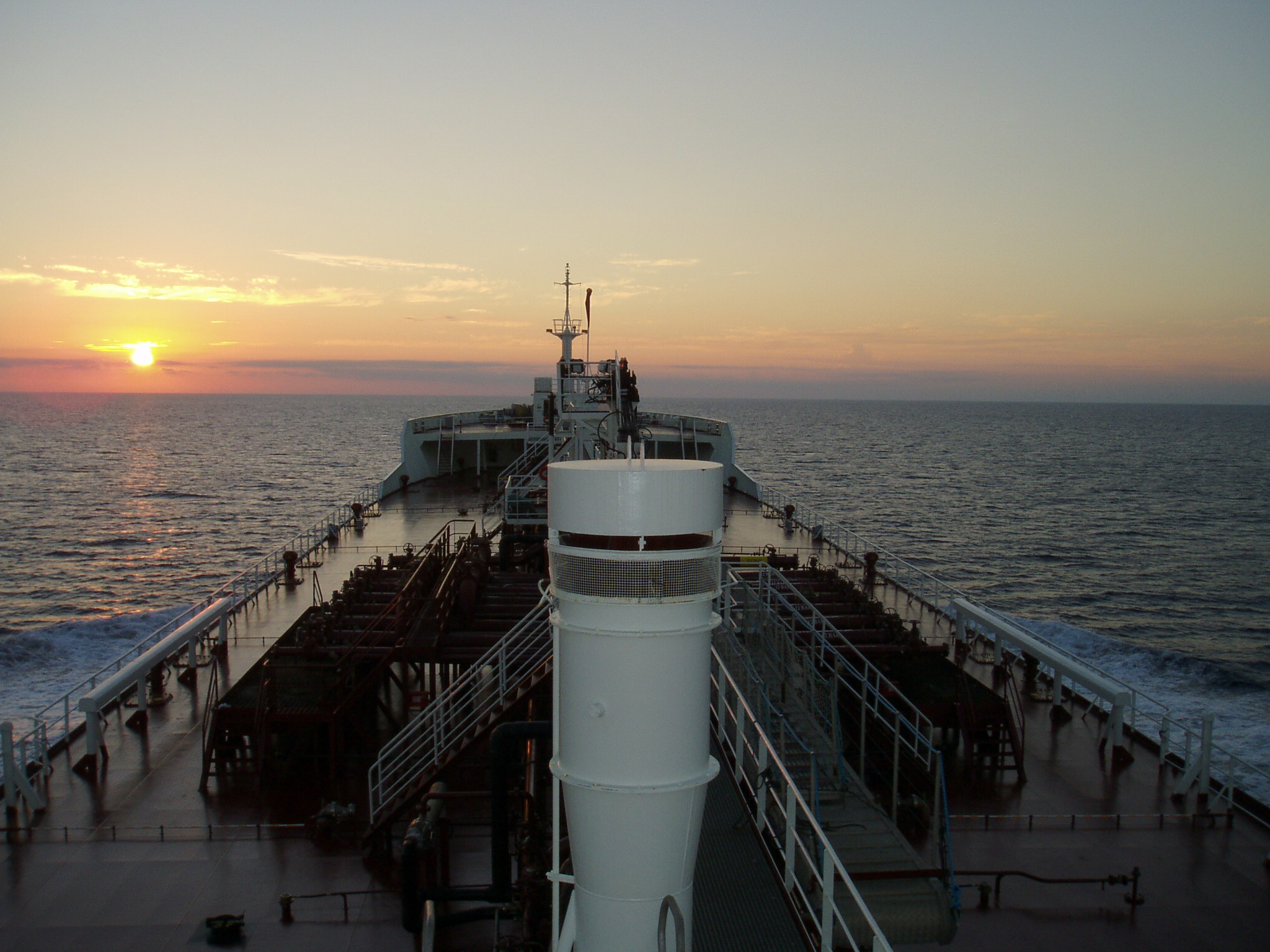 Swedish tanker M/T Fure Sun southbound in the Adriatic Sea IMO Number: 8917924 MMSI Number: 259750000 Callsign: LAFF7 Length: 145 m Beam: 22 m